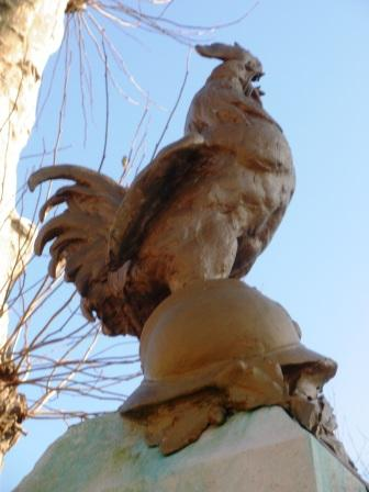 The monument aux morts at St Riquier in the Somme region of France. Sculpture by Emmanuel Fontaine